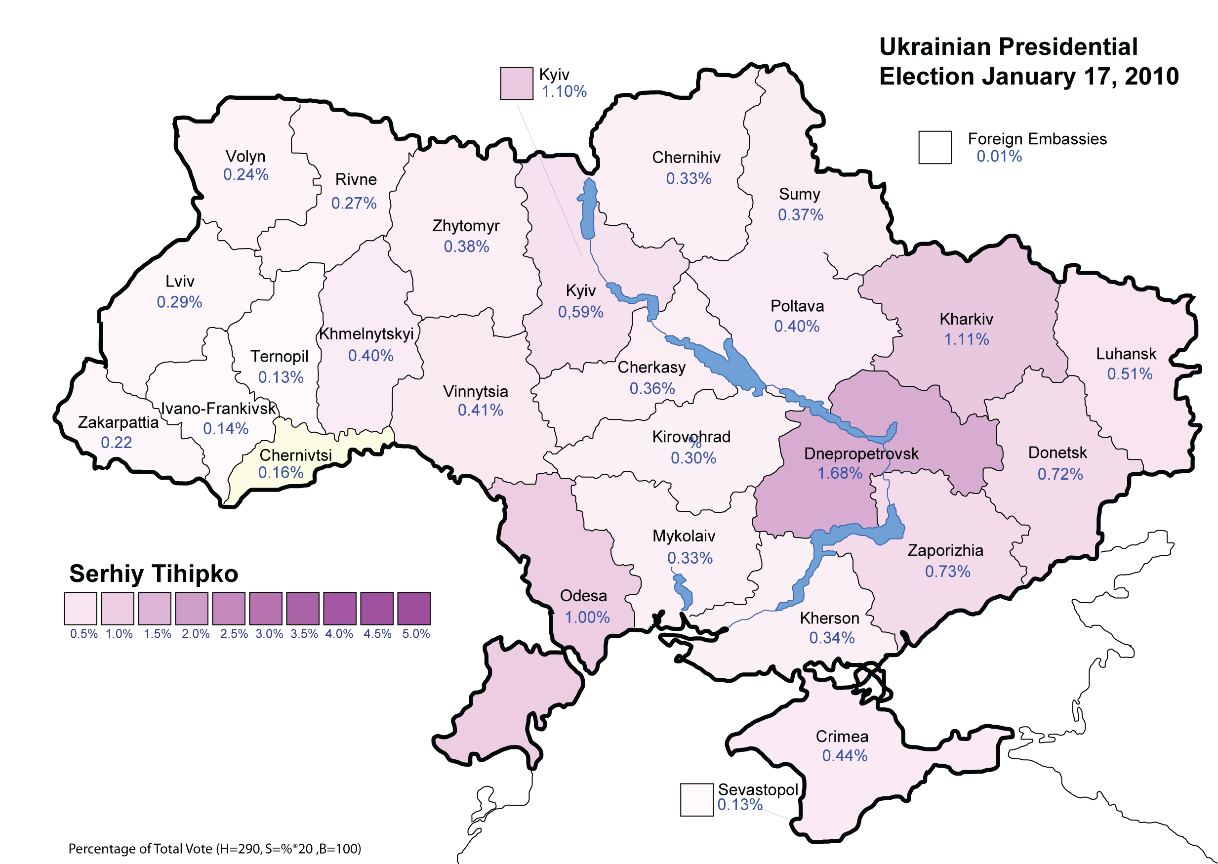 Ukrainian Presidential Election January 17, 2010 - Sergiy Tihpko (First Round)